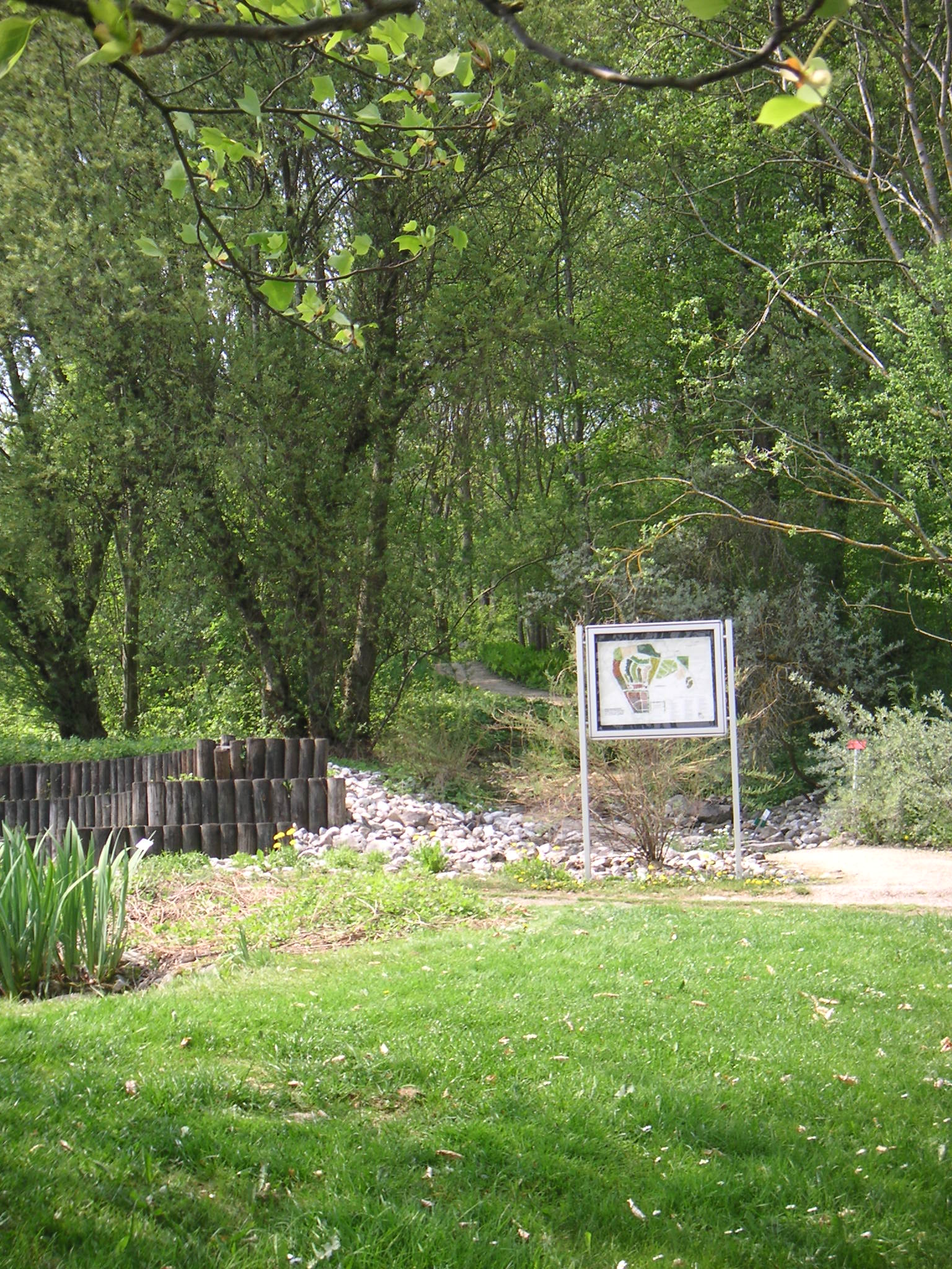 Regensburg, university, botanic garden.